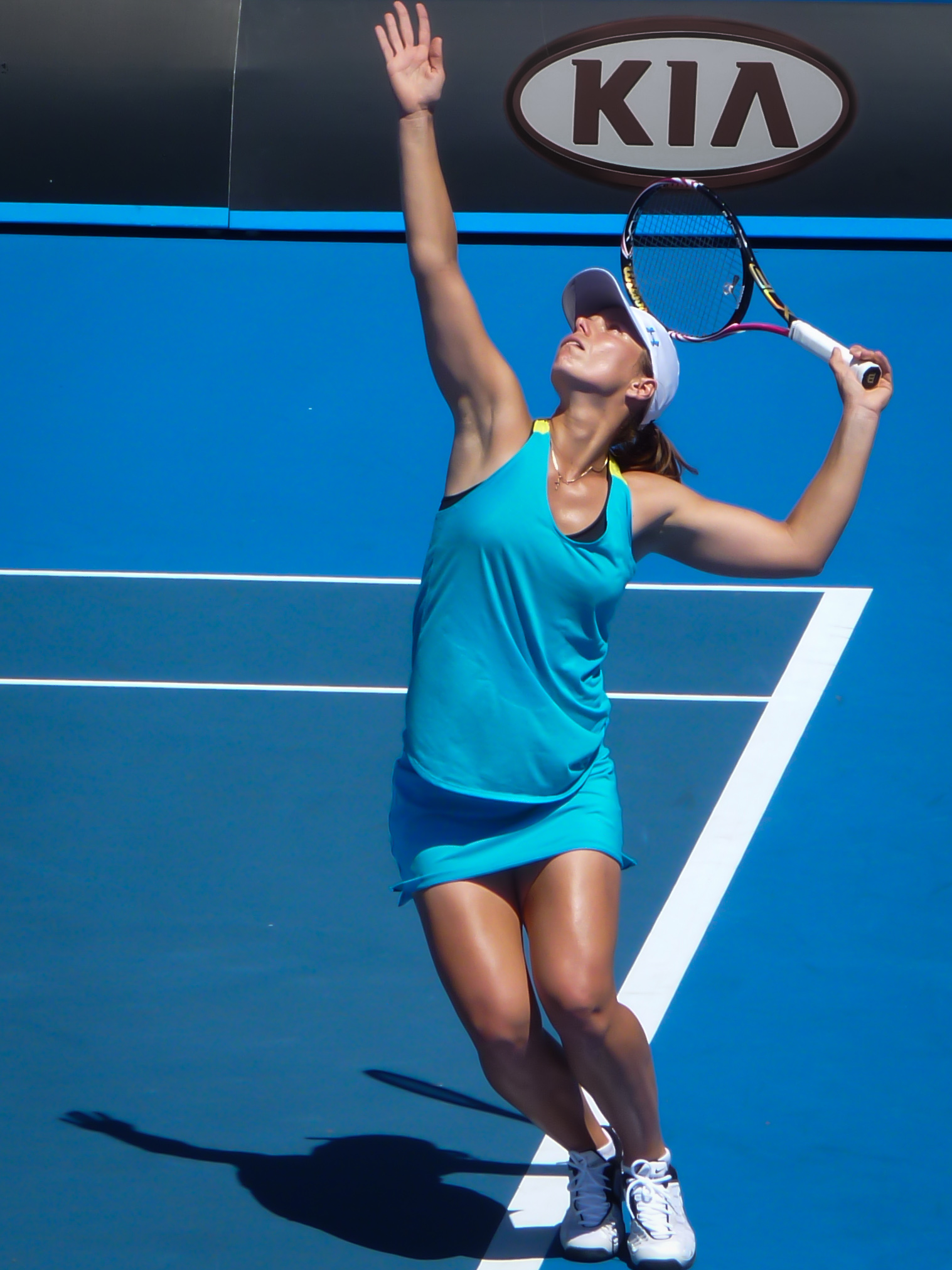 Varvara Lepchenko serving at the 2012 Aus Open